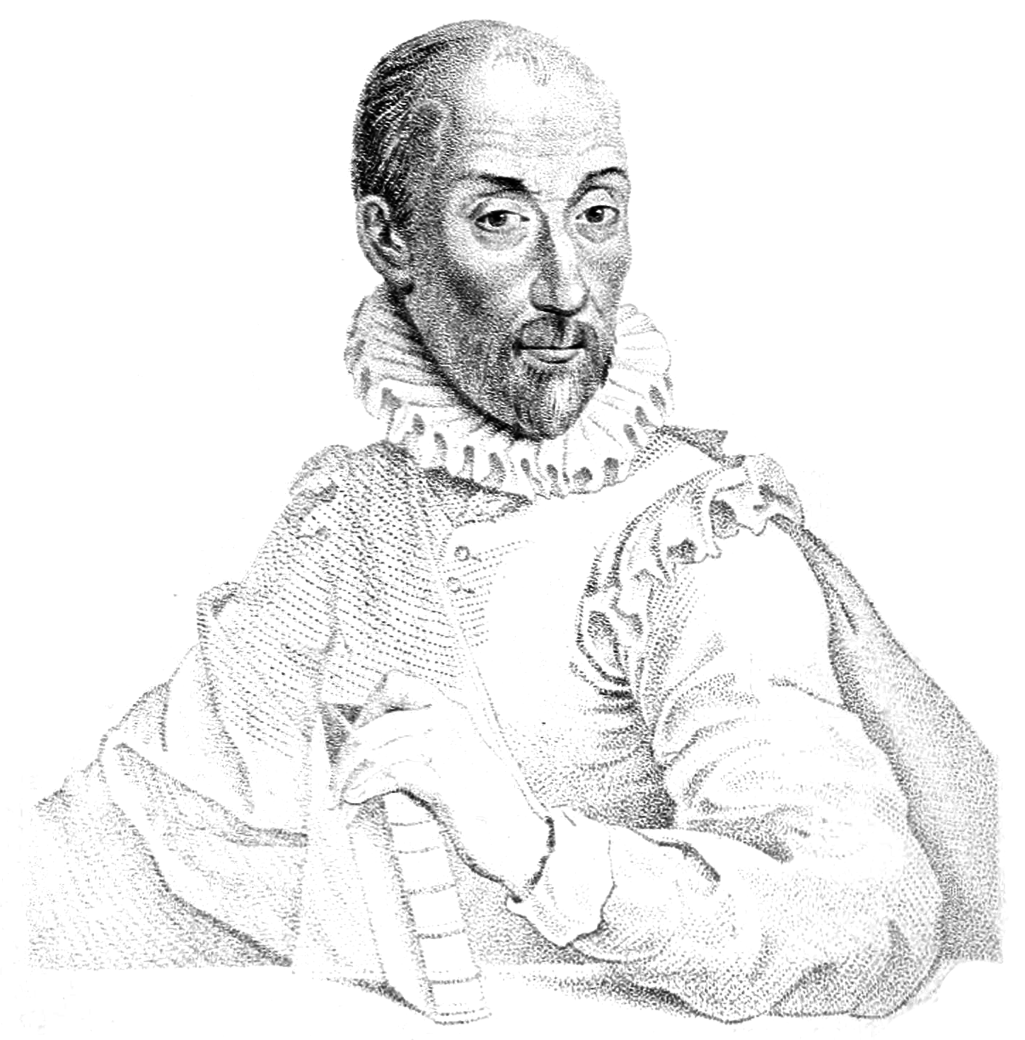 Plate of Michel de Montaigne Volume 1 of Hudibras, by Samuel Butler, edited by Henry George Bohn